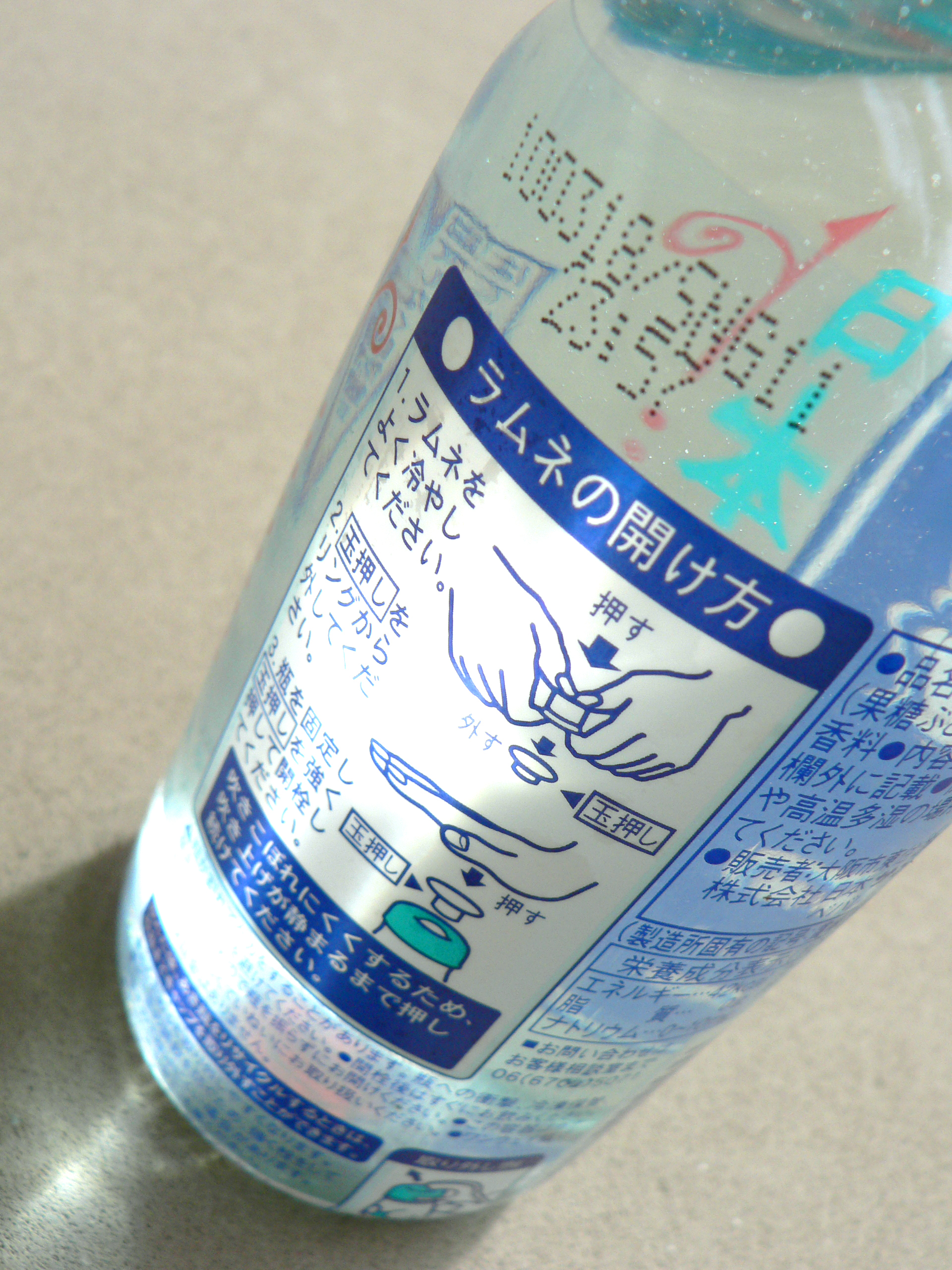 Glass-bottled ramune